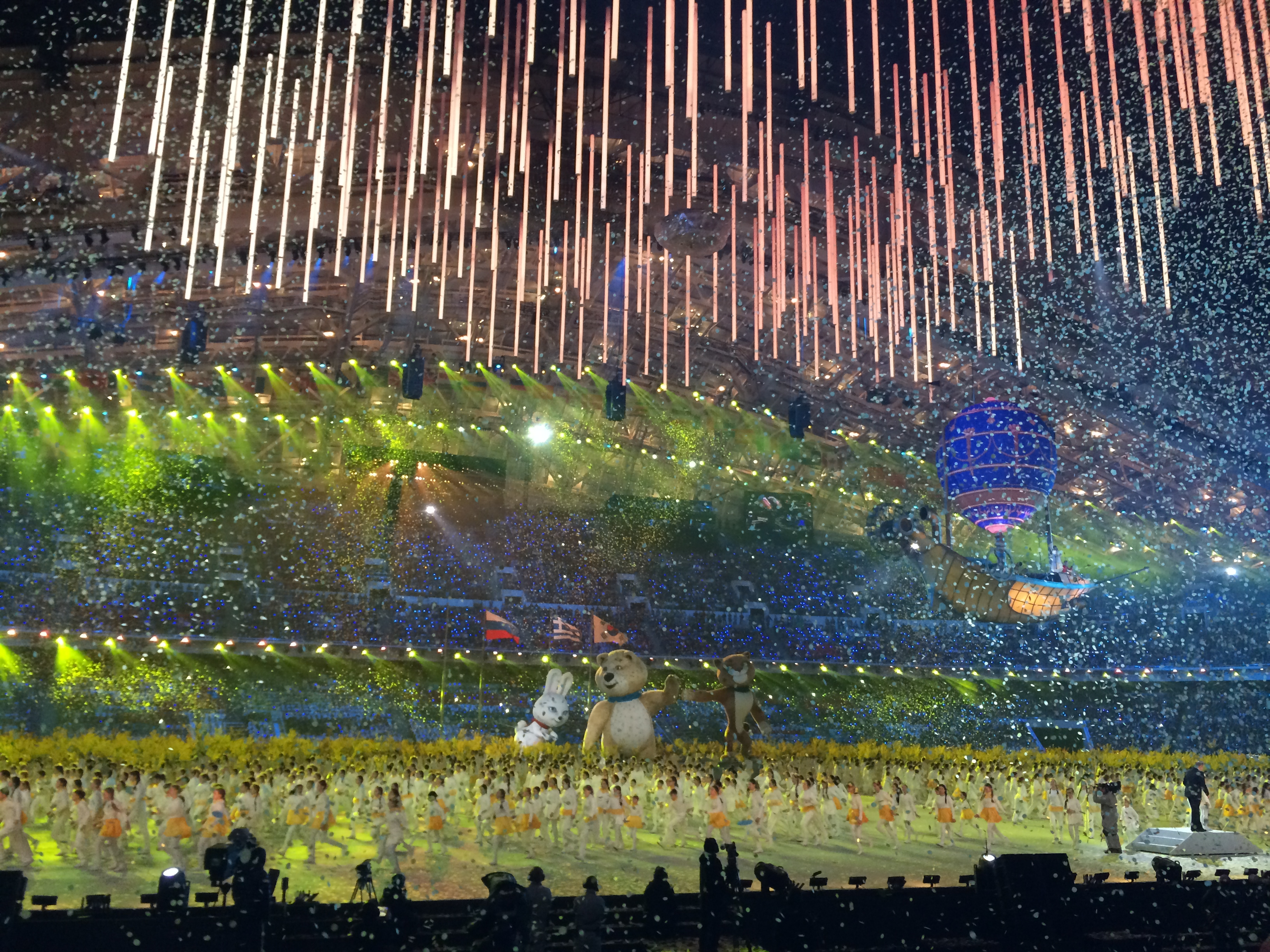 Closing Ceremony, Fisht Olympic Stadium (80)